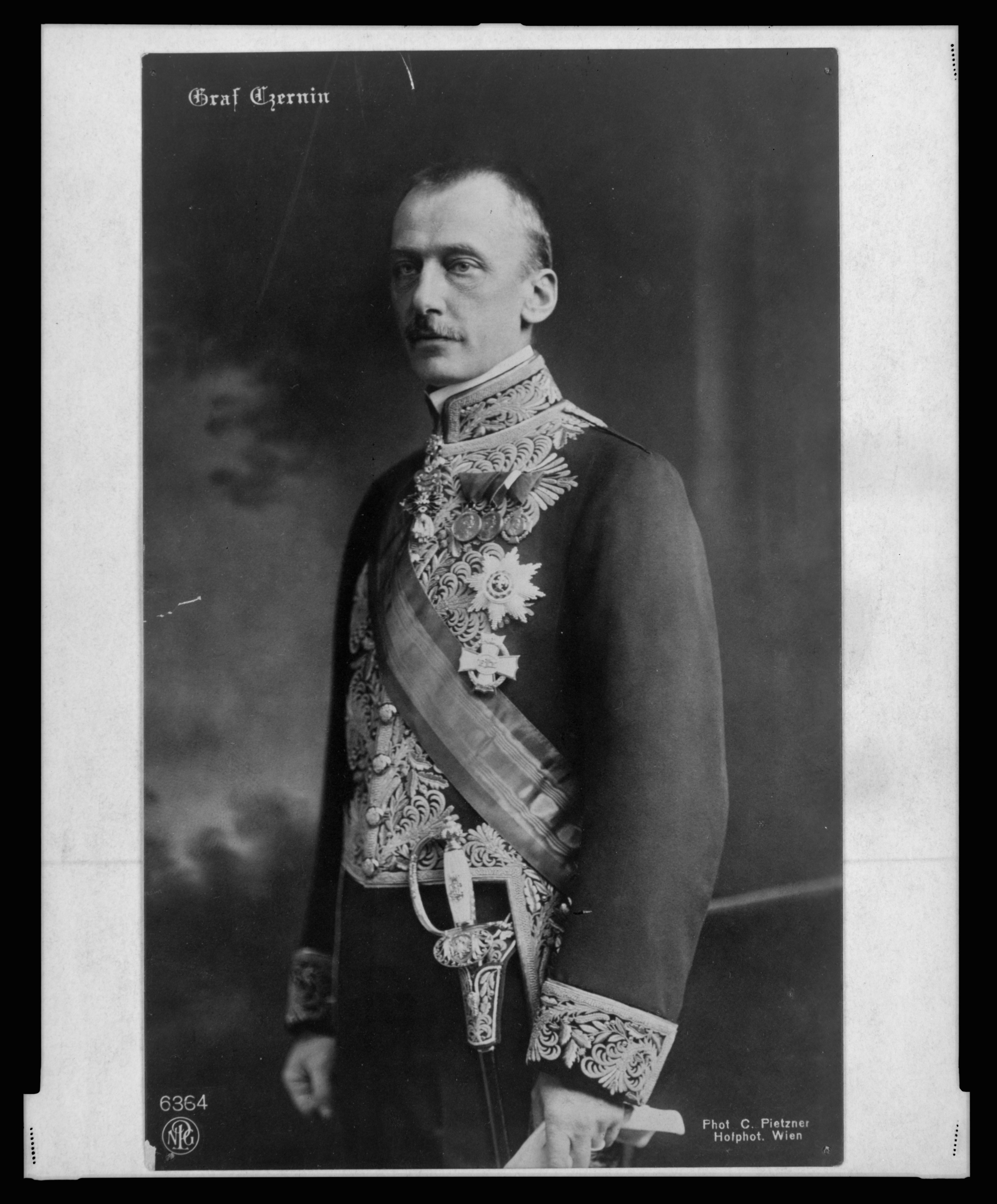 Title: Graf Czernin / Phot. C. Pietzner, Hofphot. Wien. Abstract/medium: 1 photographic print.